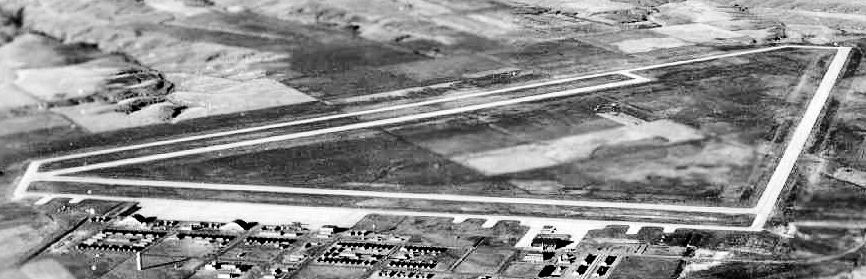 McCook Army Airfield in McCook, Nebraska, United States